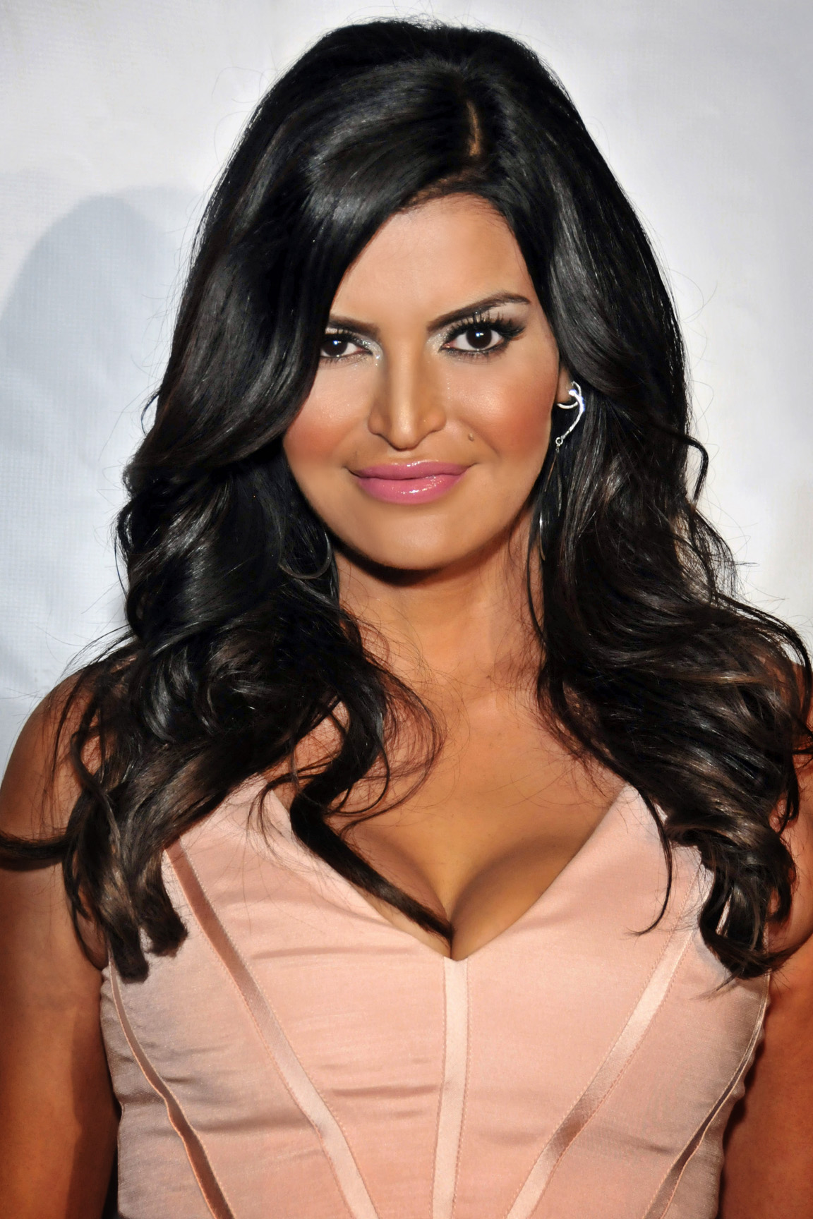 Jennifer Gimenez, Hollywood, California on March 28, 2013 - Photo by Glenn Francis of